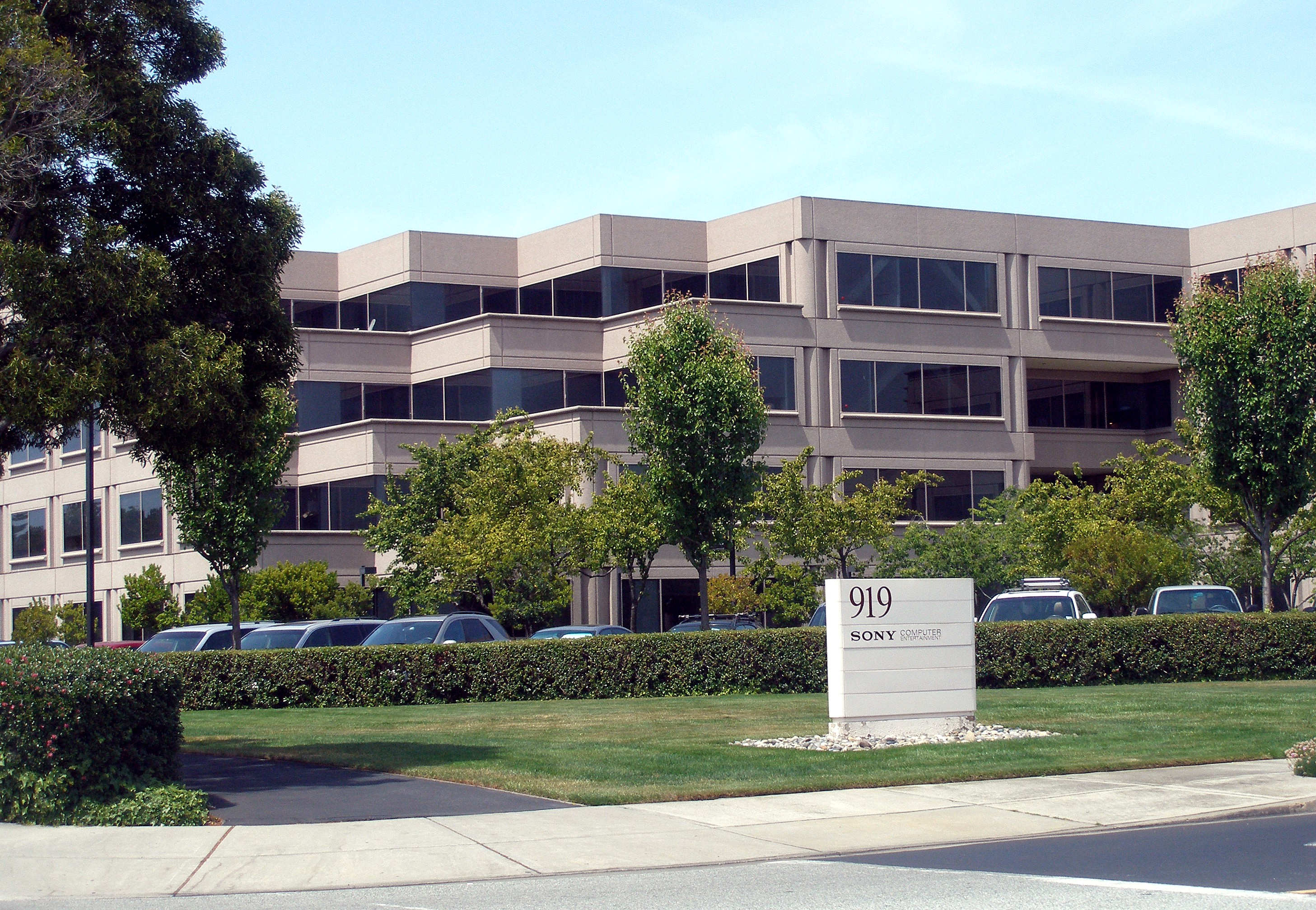 The headquarters of Sony Computer Entertainment America (the U.S.-based subsidiary) of Sony Computer Entertainment) in Foster City.